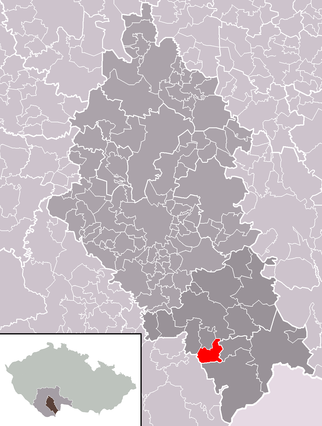 Location of Kamenná municipality within České Budějovice District and administrative area of Trhové Sviny as a Municipality with Extended Competence.